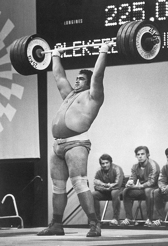 LG18 '72 Wire Photo VASILY ALEKSEYEV Russia Olympic Super Heavyweight-Lift Champ